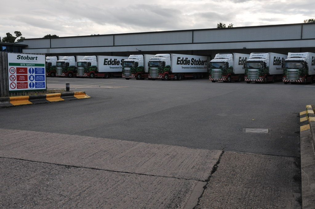 Eddie Stobart Chilled Ltd, Alcester. The Eddie Stobart Chilled Ltd distribution centre beside the A435 near Alcester. I passed this distribution centre in July 2012 and Stobart's have moved out and the premises is to let.